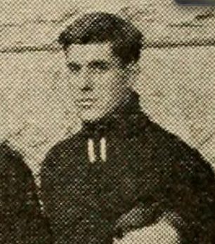 Roy Thomas at Fairmoutn College